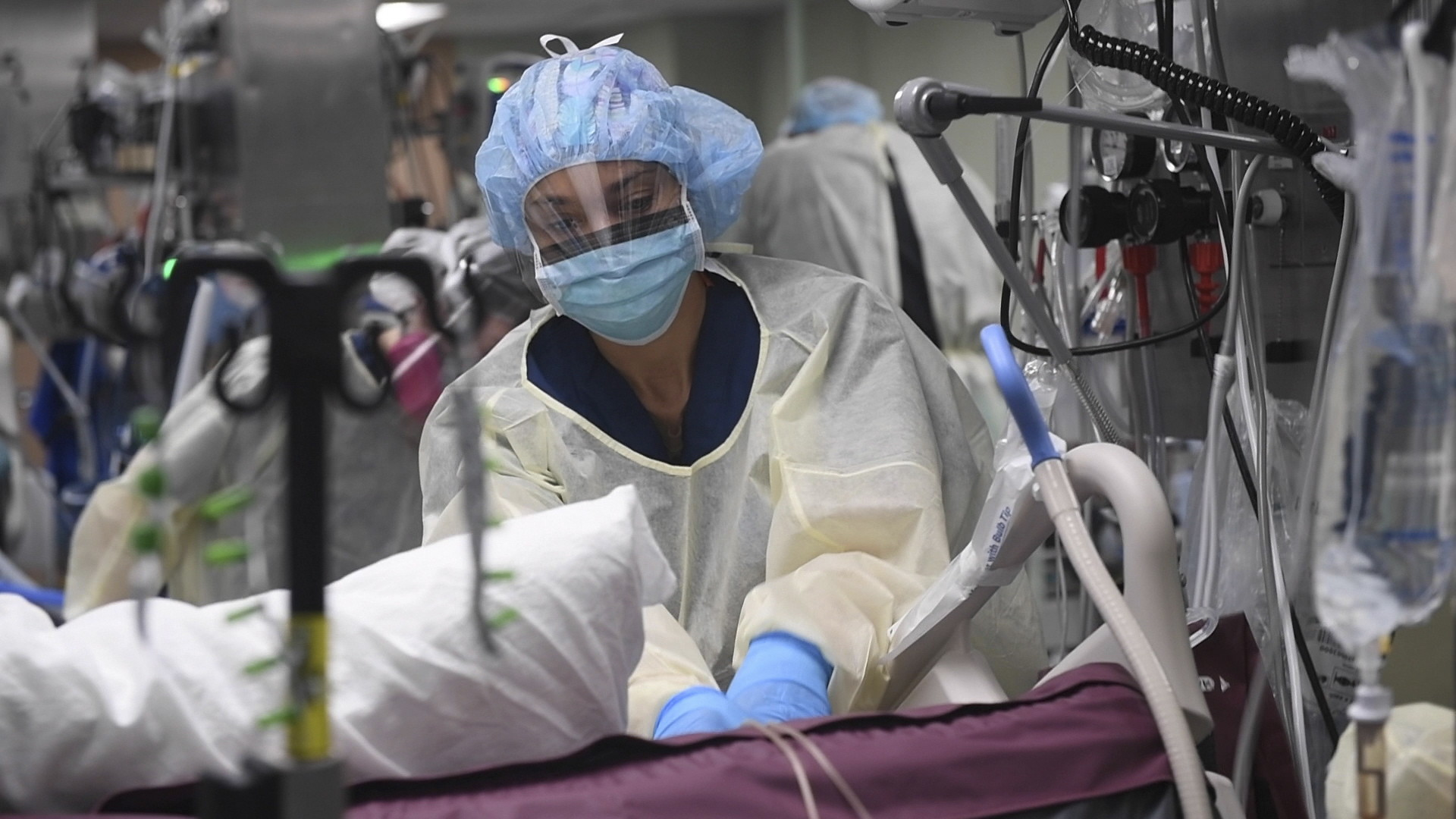 Lieutenant (junior grade) Natasha McClinton, a surgical nurse, prepares a patient for a procedure in the intensive care unit aboard the U.S. the hospital ship USNS Comfort. The ship cares for critical and non critical patients without regard to their COVID-19 status. Comfort is working with Javits New York Medical Station as an integrated system to relieve the New York City medical system, in support of U.S. Northern Command's Defense Support of Civil Authorities as a response to the COVID-19 pandemic.